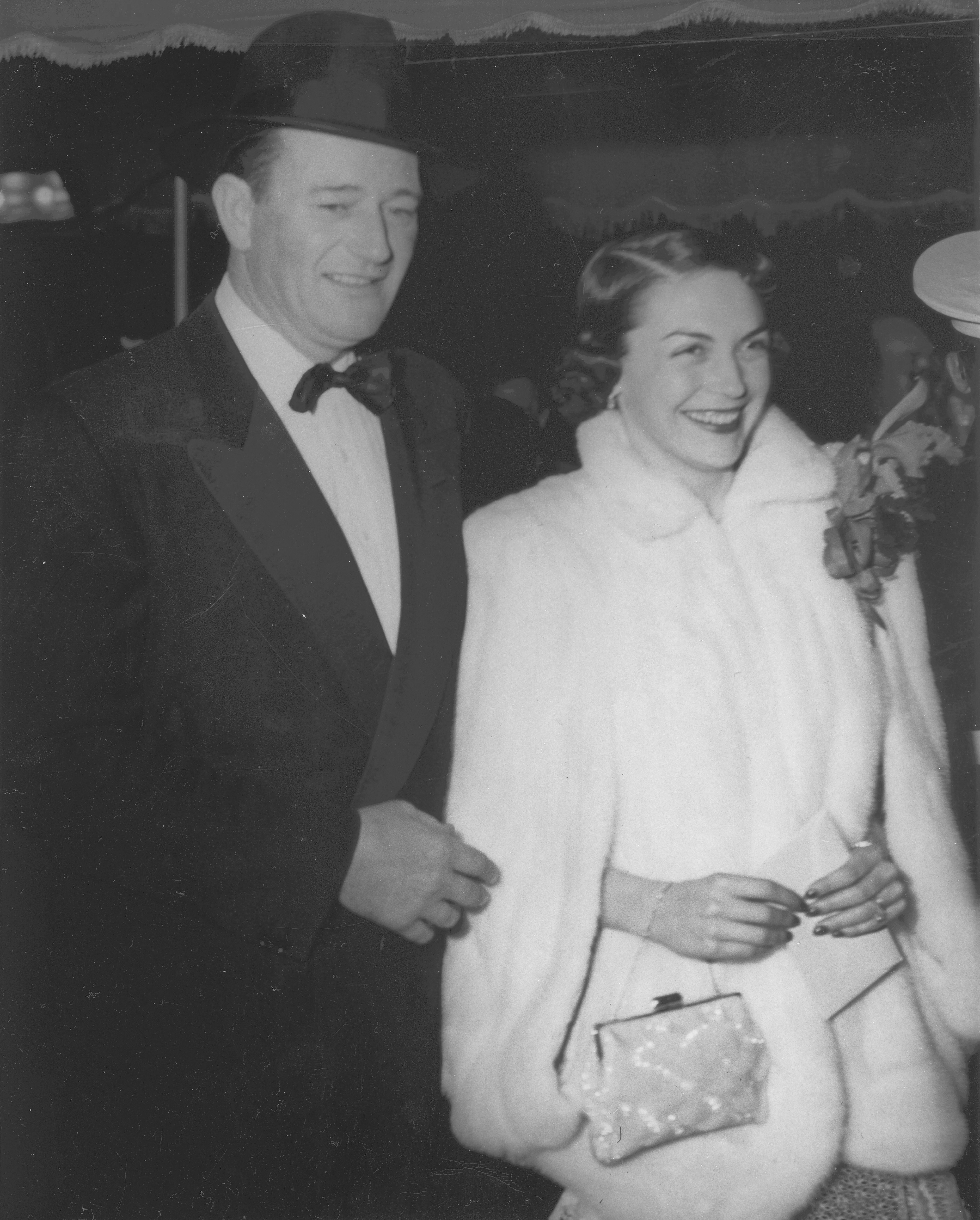 John Wayne and his wife, Esperanza Baur arrive at the Sands of Iwo Jima premiere. From the Graves B. Erskine Collection (COLL/3065) at the Marine Corps Archives and Special Collections OFFICIAL USMC PHOTOGRAPH